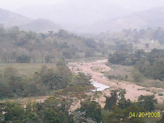 Partial view of the river valley Capitanejo on its way through the Commonwealth of rural Rio Arriba Capitanejo.